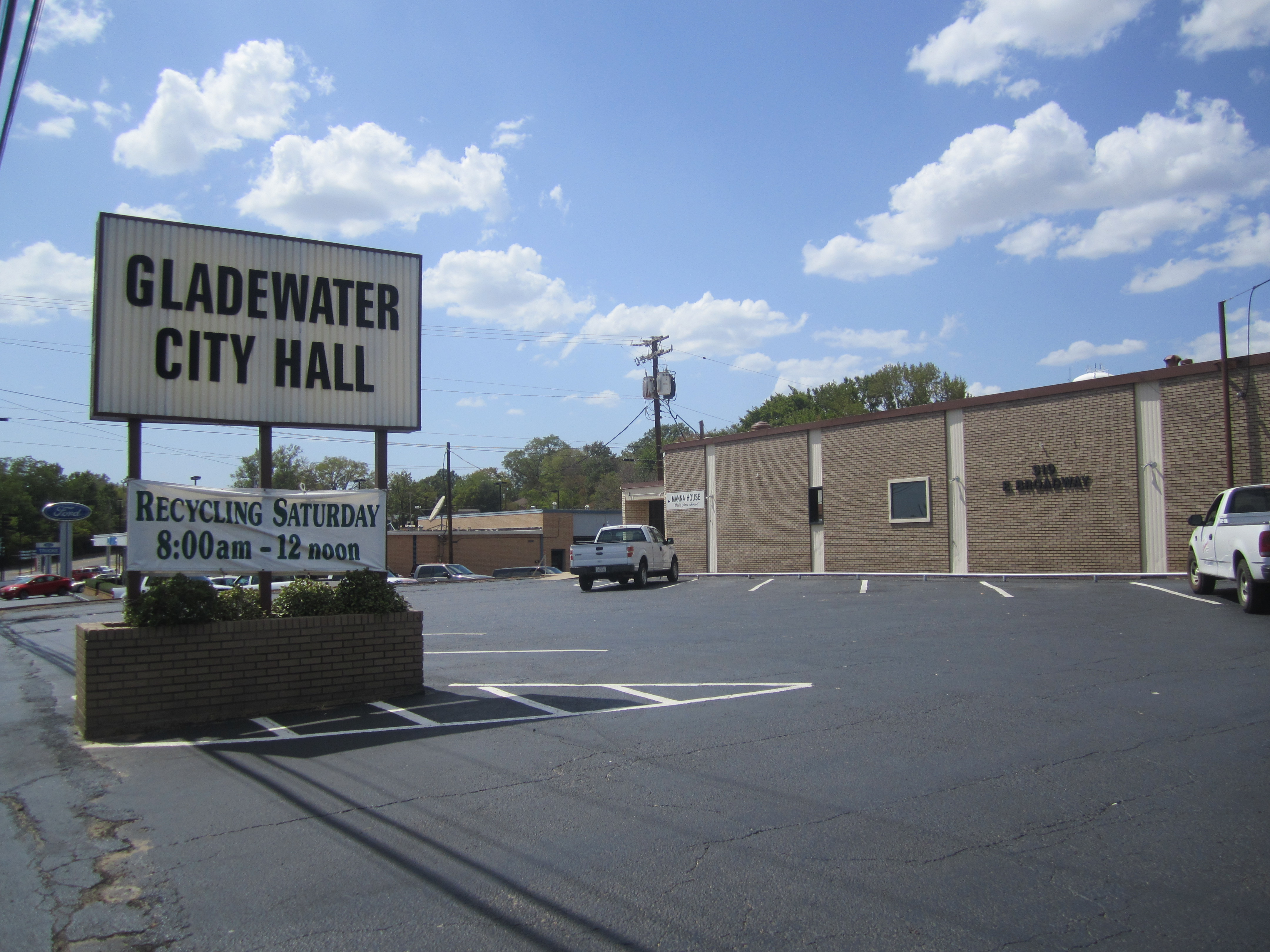 I took photo of Gladewater, TX, City Hall, with Canon camera.